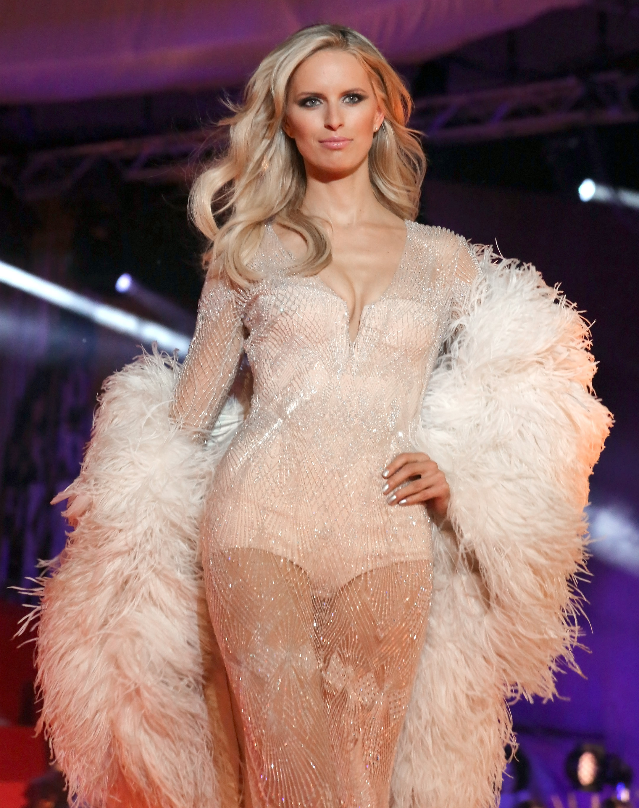 Karolína Kurková, fashion show by Roberto Cavalli, opening of Life Ball 2013 at the city hall of Vienna, Vienna, Austria.